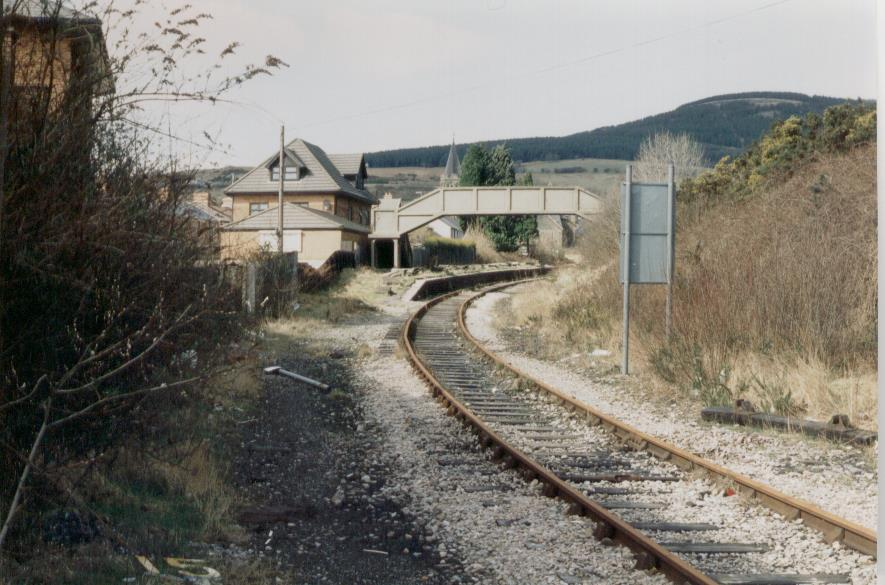 Maesteg Castle Street railway station (site), Bridgend, 1994. Opened in 1861 on the Llynvi & Ogmore Railway's line from Pyle to Cymmer, this station closed in 1970. In 1992, a new station was opened for Maesteg around 200m east of the old station. View west from the 1992 station, towards Nantyffyllon and Cymmer. The building appears to be a later addition, to the left of the site. 20 years after this image was taken, Castle Street station was still extant but buried in vegetation.